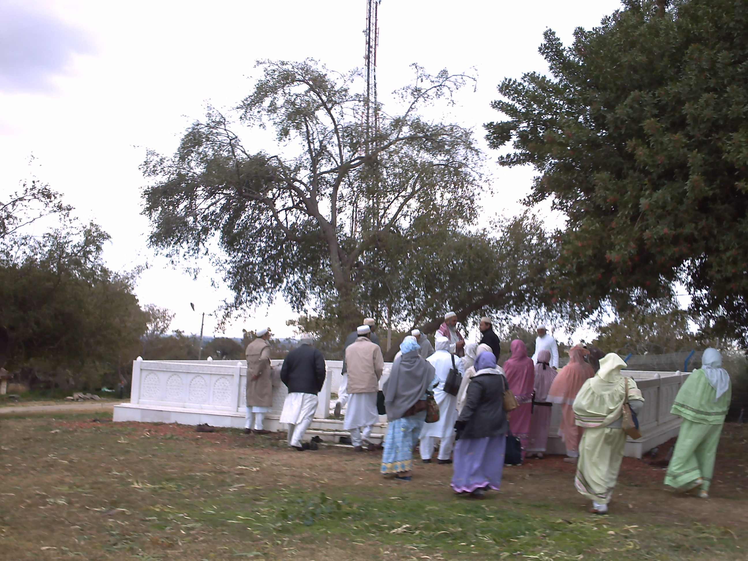 The_burial_place_of_Husayn's_head_in_Askelan,Israel